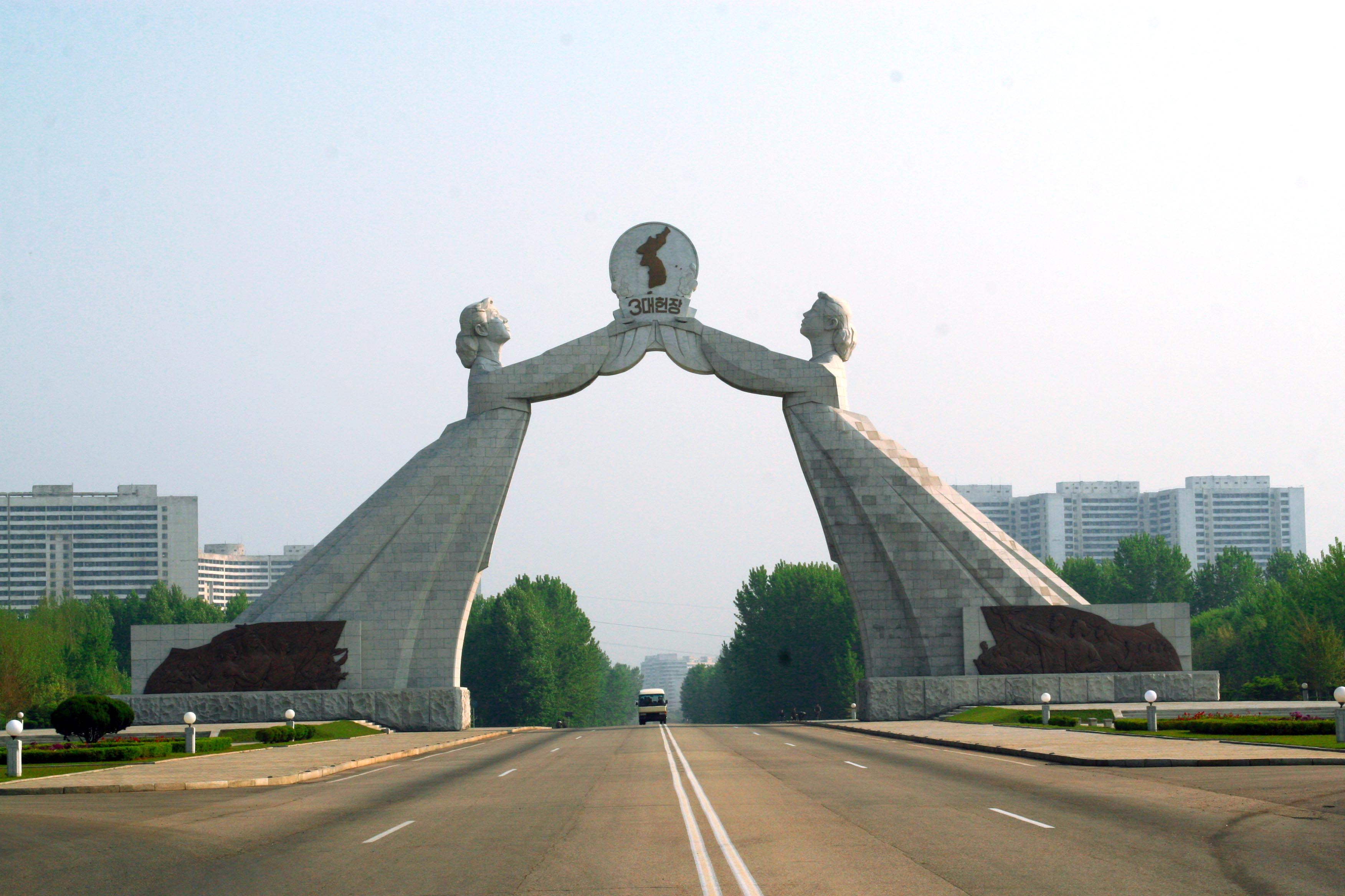 A Statue depicting the Reunification of Korea, located in Pyongyang, Democratic People's Republic of Korea (North Korea)